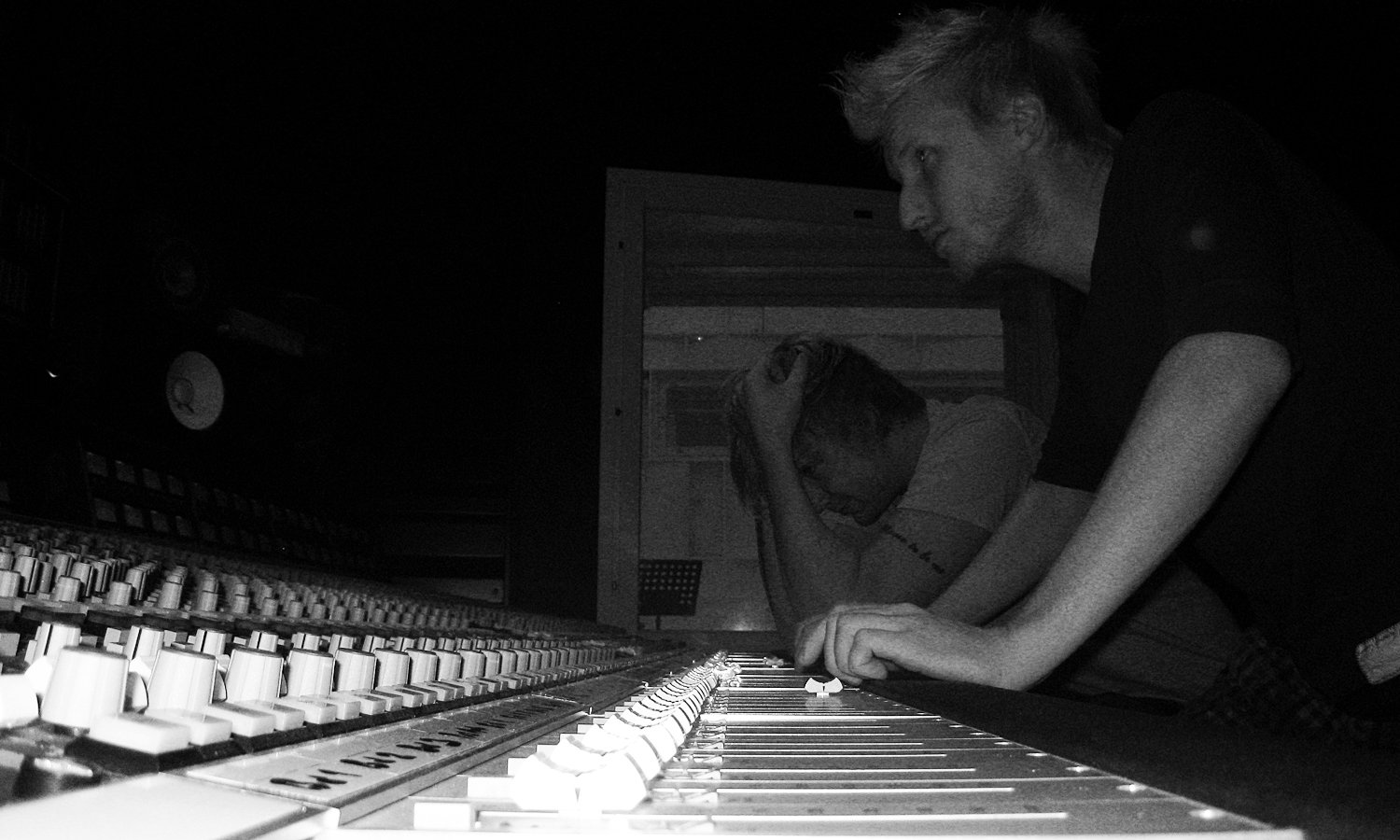 Producer Jukka Backlund in studio with Samu Haber from Sunrise Avenue